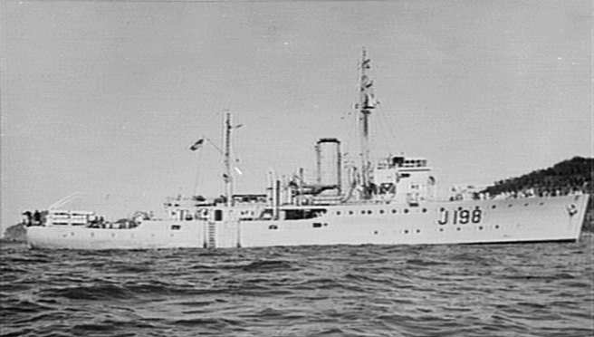 H.M.A.S. Burnie Date(s) of creation: 1941. 2 negatives : glass ; 12.1 x 16.6 cm. (half plate) Reproduction rights owned by the State Library of Victoria Accession Number: H91.108/302 Image Number: b36547